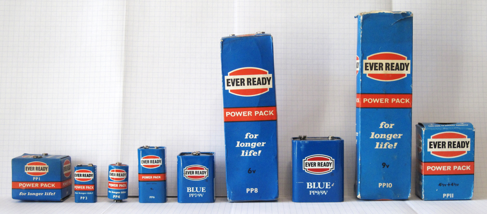 The complete range of PP batteries. From left to right: PP1, PP3, PP4, PP6, PP7, PP8, PP9, PP10, PP11 Only the PP3 is in common use today, the PP8 and PP9 are sometimes used for specialist applications.